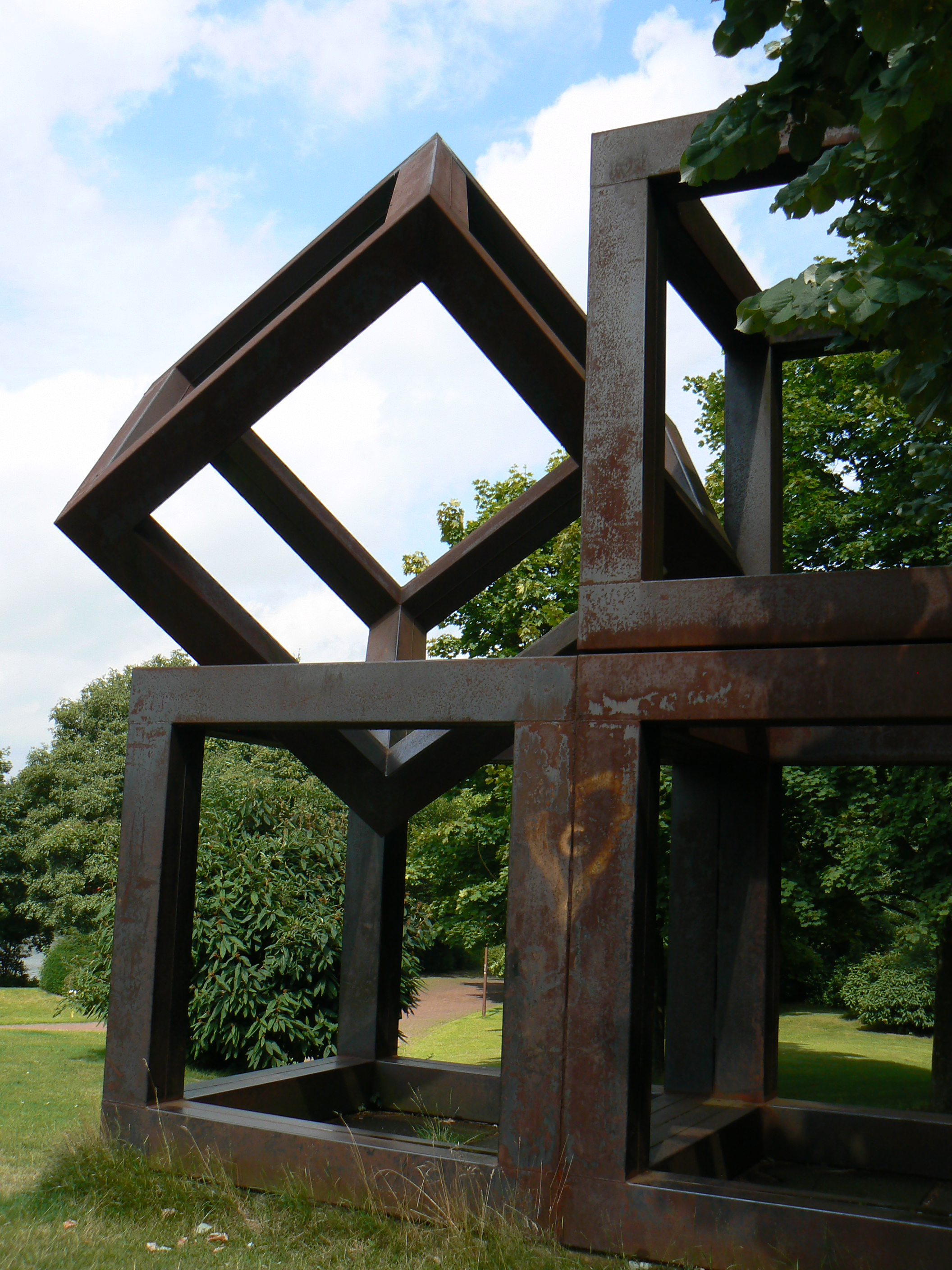 Location: city center Marl/Germany Collection: Skulpurenmuseum Glaskasten, Marl Sculpture: 3/72 Rahmenkonstruktion 1972 Sculptor: Alf Lechner